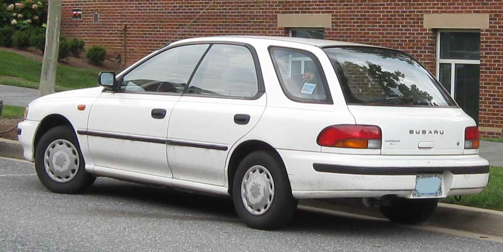 Subaru Impreza photographed in College Park, Maryland, USA.